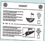 East Timor referendum ballot paper 1999